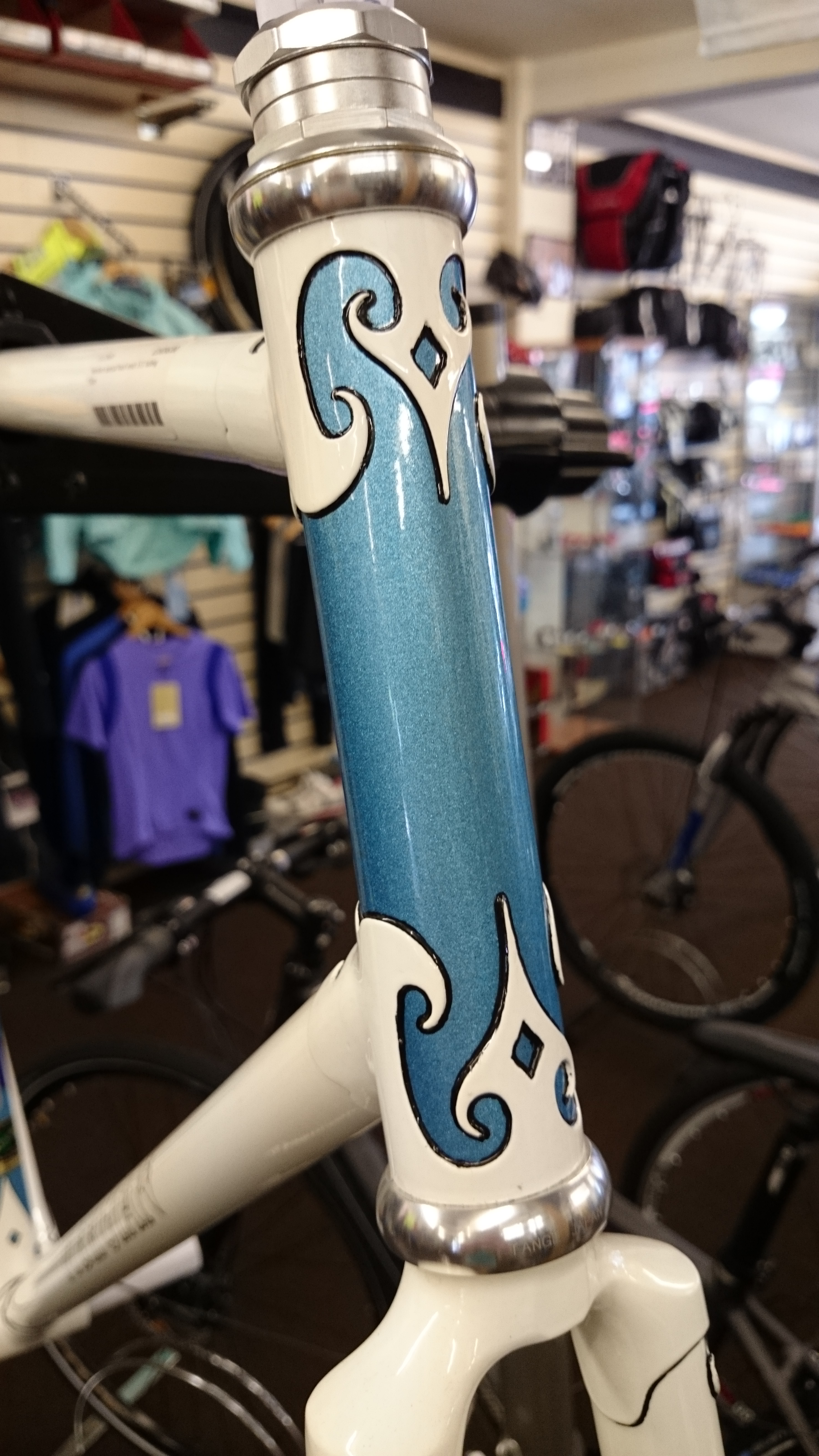 An example of the lugwork by Mercian Cycles of Derby, England